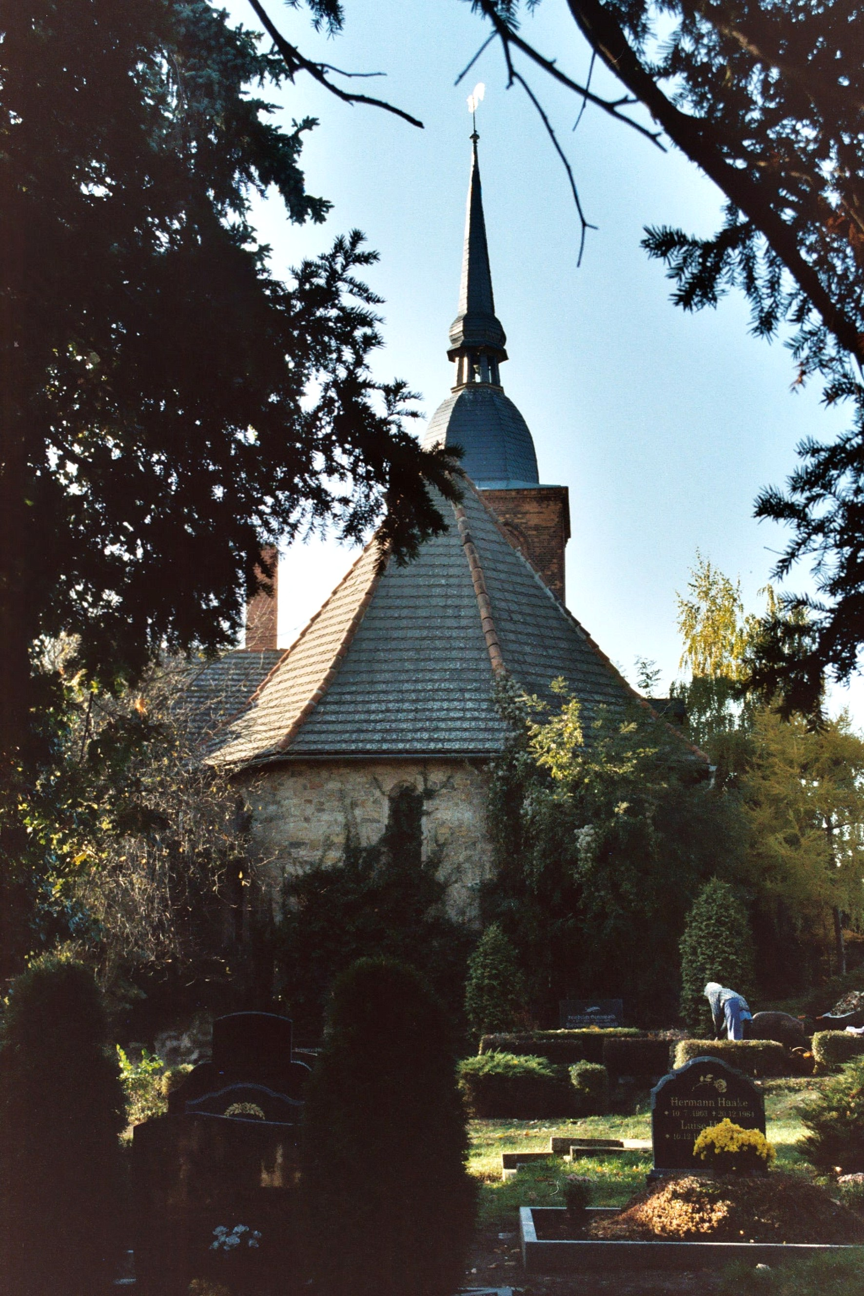 Hedersleben (Lutherstadt Eisleben), churchyard and village church